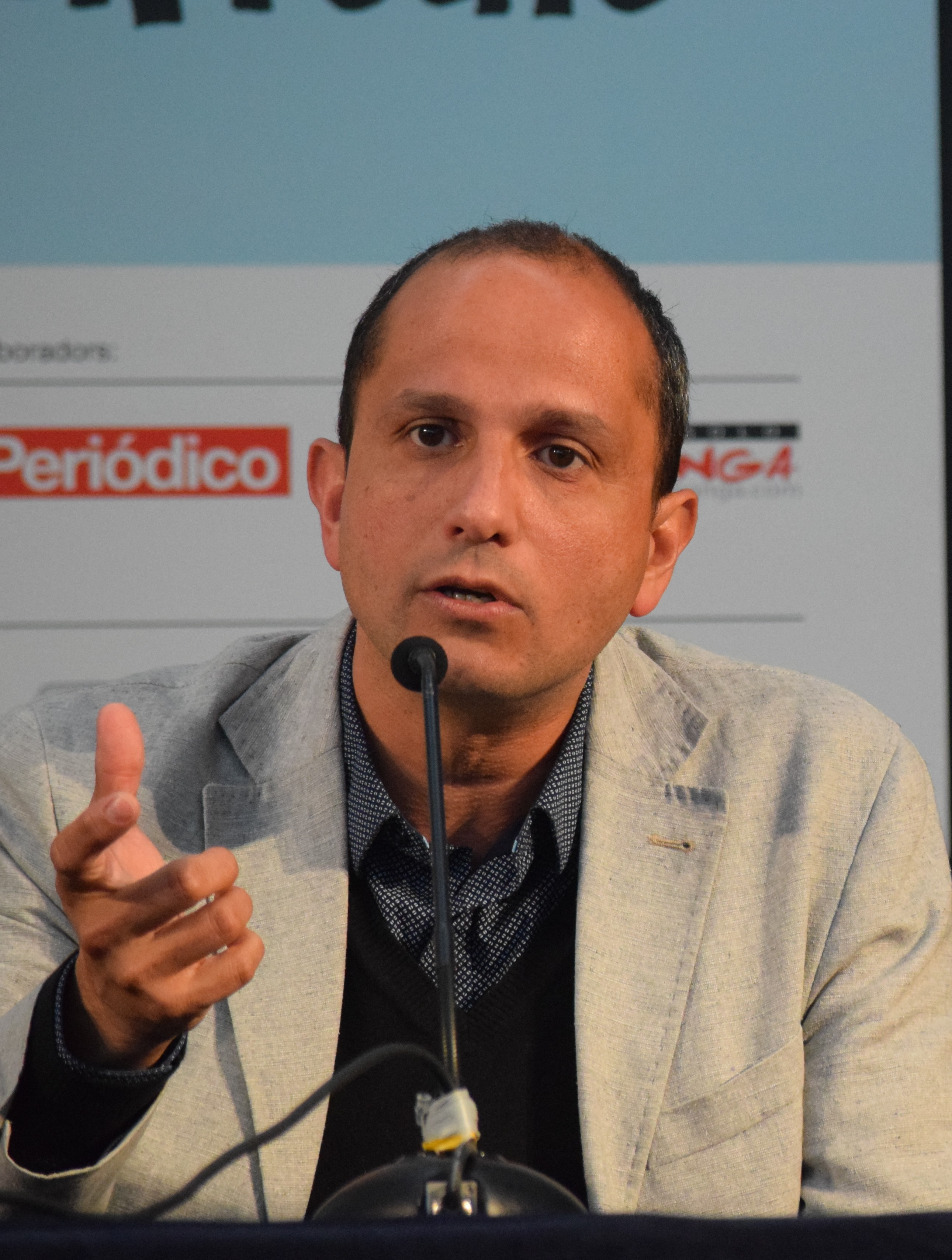 Conference. Meeting with half of the nominated authors to the award to the Best Comic. Detail of Jorge Carrión, autor del còmic Barcelona. Los vagabundos de la chatarra. The journalist Vicent Sanchis moderated the conference. Barcelona Internacional Comic Convention. Friday 6 may 2016.